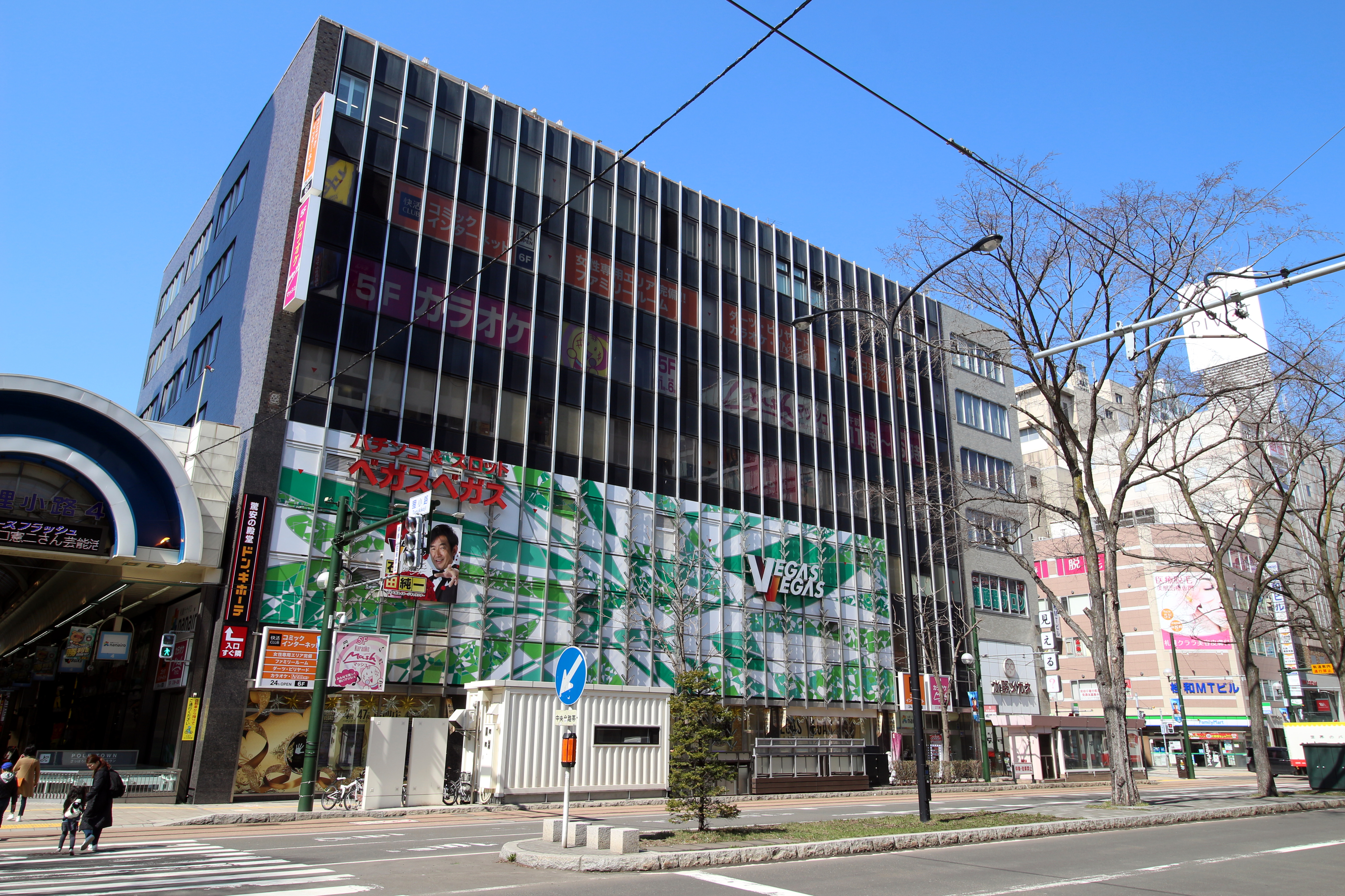 Sapporo Nanairo, commercial building in Chuo-ku, Sapporo.